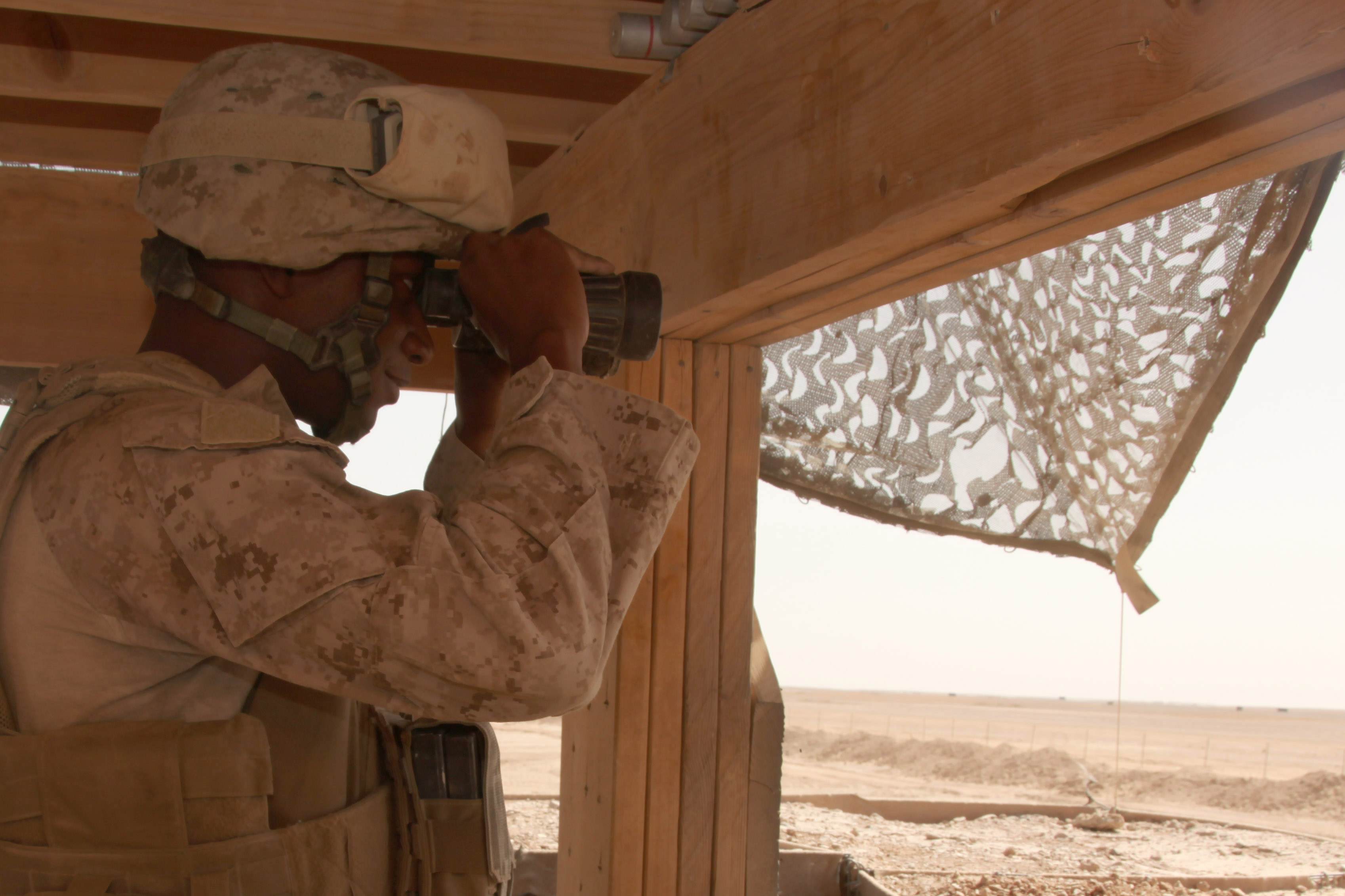 Lance Cpl. Timothy Daniels, a Base Defense Augmentation Force Marine with 3rd Low Altitude Air Defense Battalion, searches the horizon for movement at the base perimeter here. Daniels and 32 other Marines volunteered for a three-month deployment to support 3rd Marine Aircraft Wing (Forward)’s requirement to augment the base defense force. The Marines man guard towers, roam the base perimeter, and perform vehicle and personnel searches at the base's main entry points.